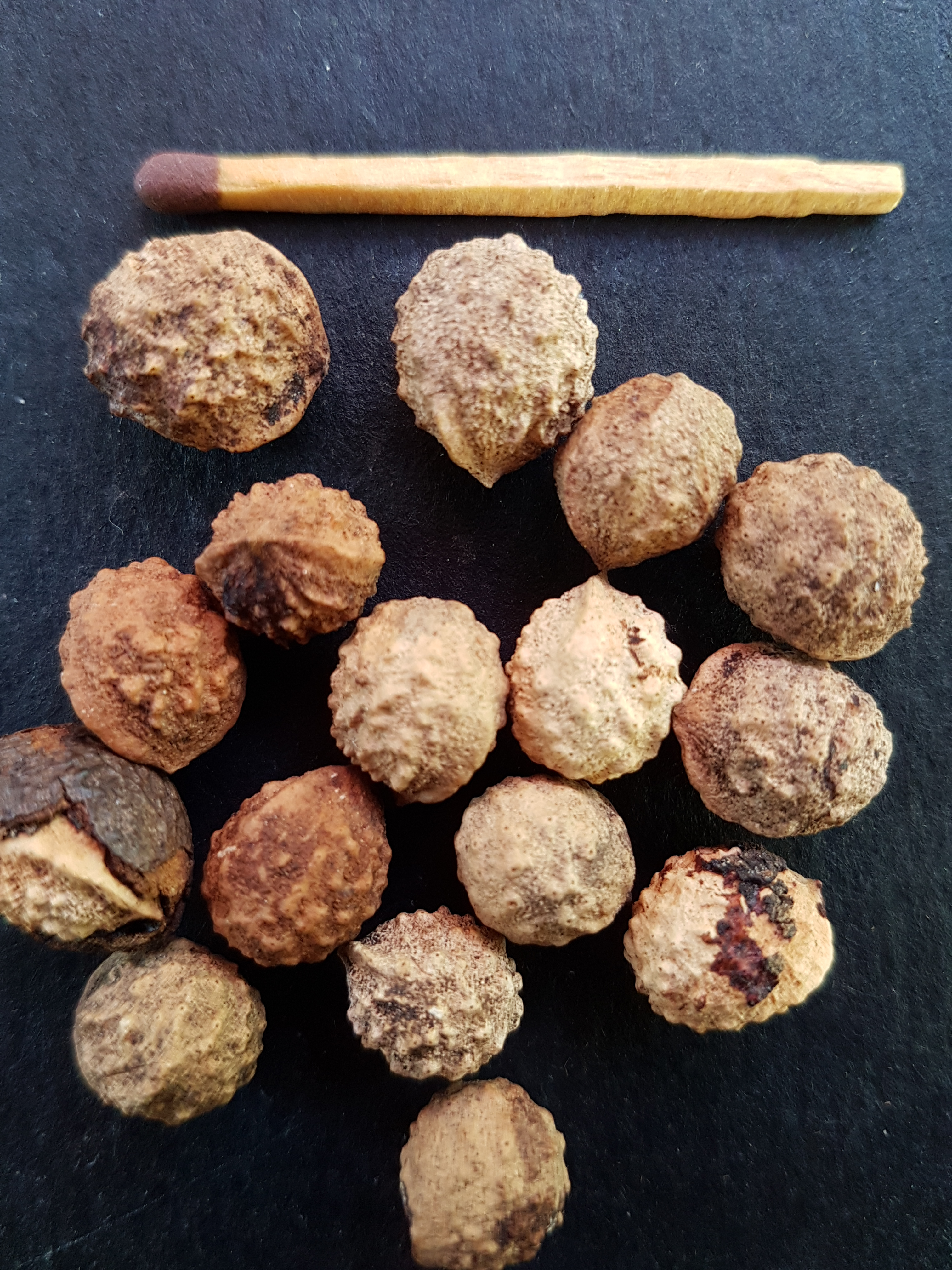 Seeds of Afrocarpus falcatus (Thunb.) C.N.Page - Nature's Valley, South Africa